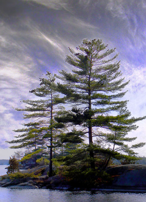 Stony Lake, Ontario, Canada, [foto by P.B.Toman]